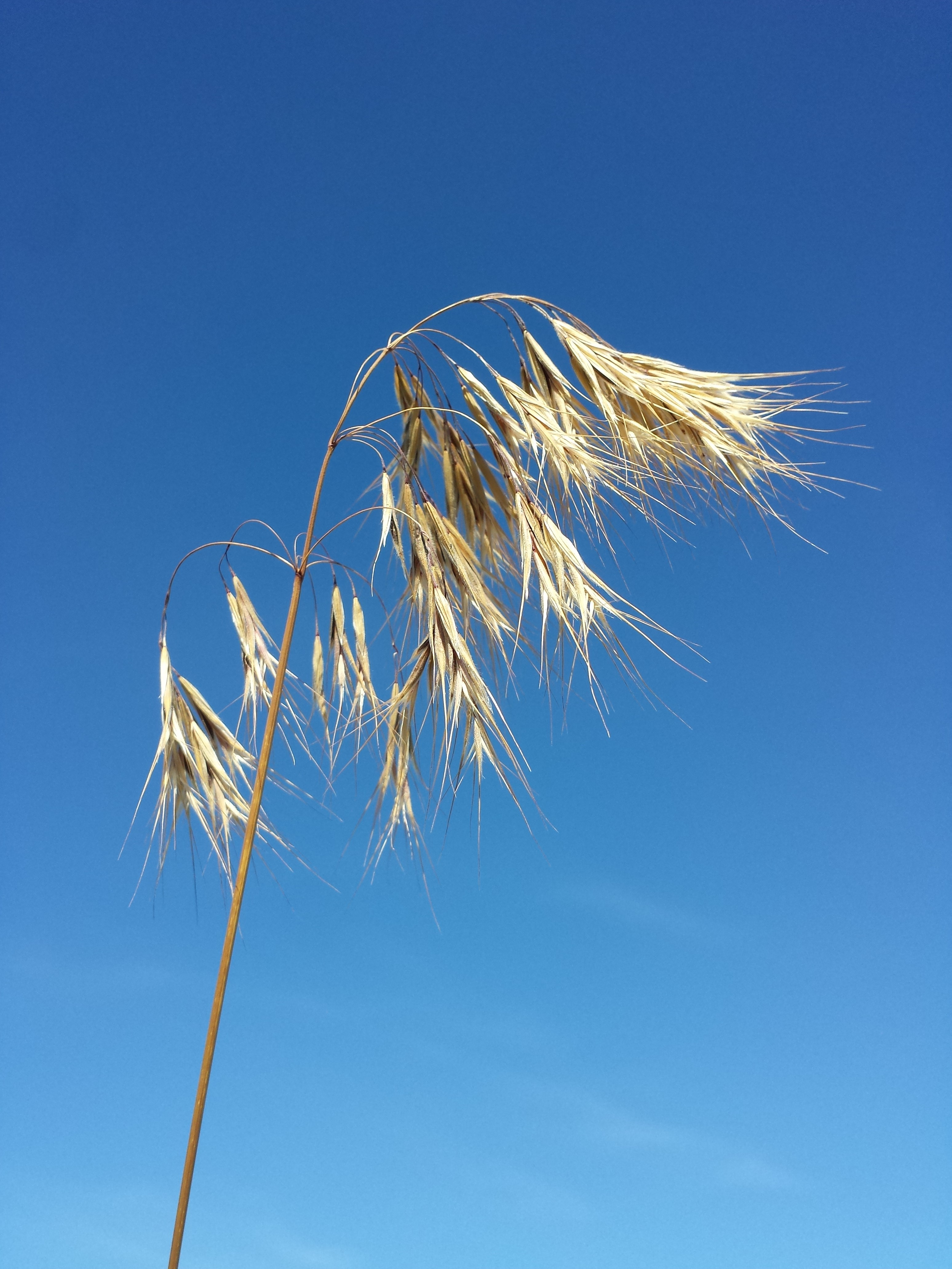 Panicle Taxonym: Bromus tectorum ss Fischer et al. EfÖLS 2008 ISBN 978-3-85474-187-9 Location: Jedlersdorf rail station, Vienna-Floridsdorf - ca. 160 m a.s.l. Habitat: ruderal area